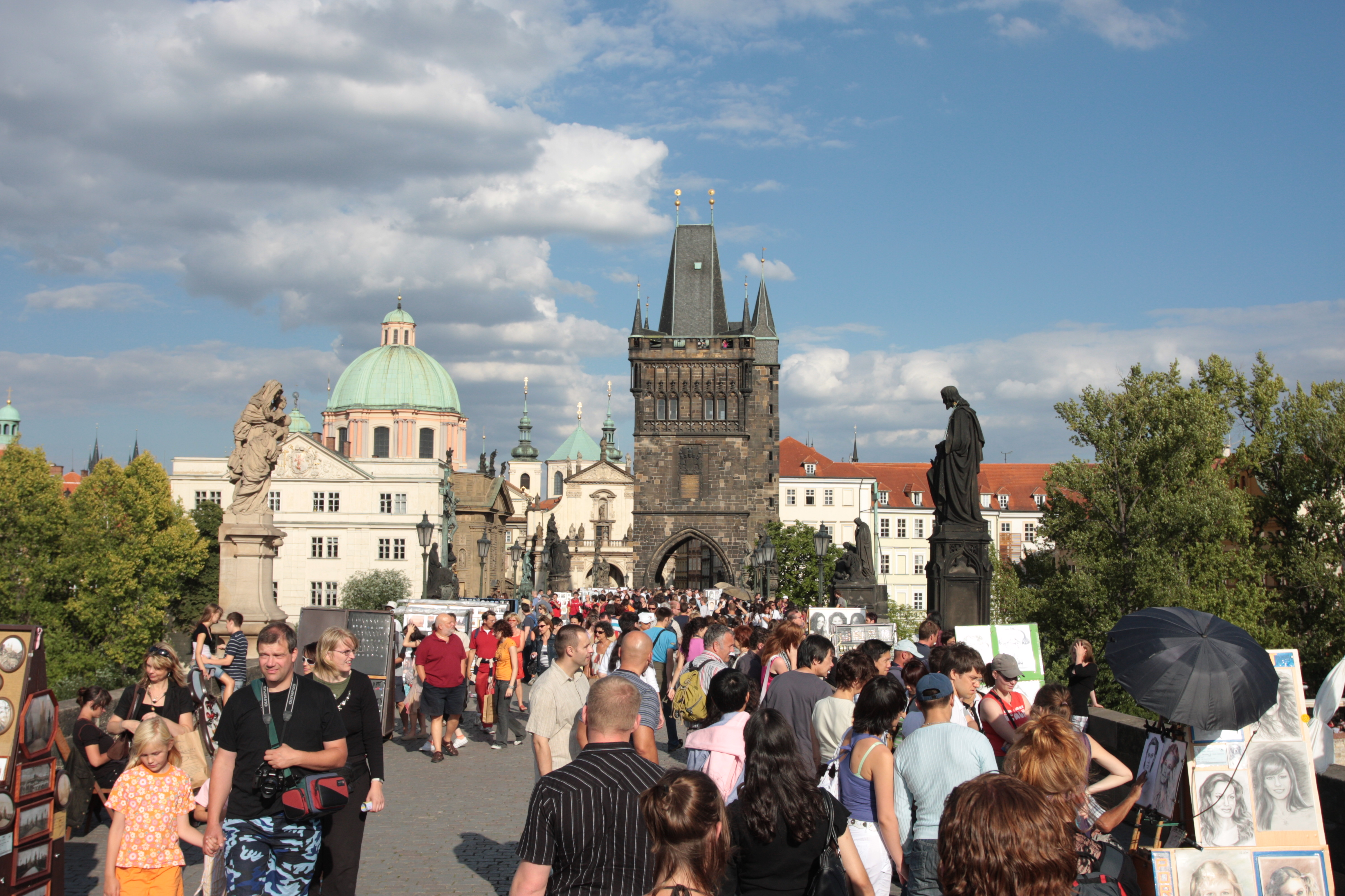 tourists on the Carls Bridge in Prague